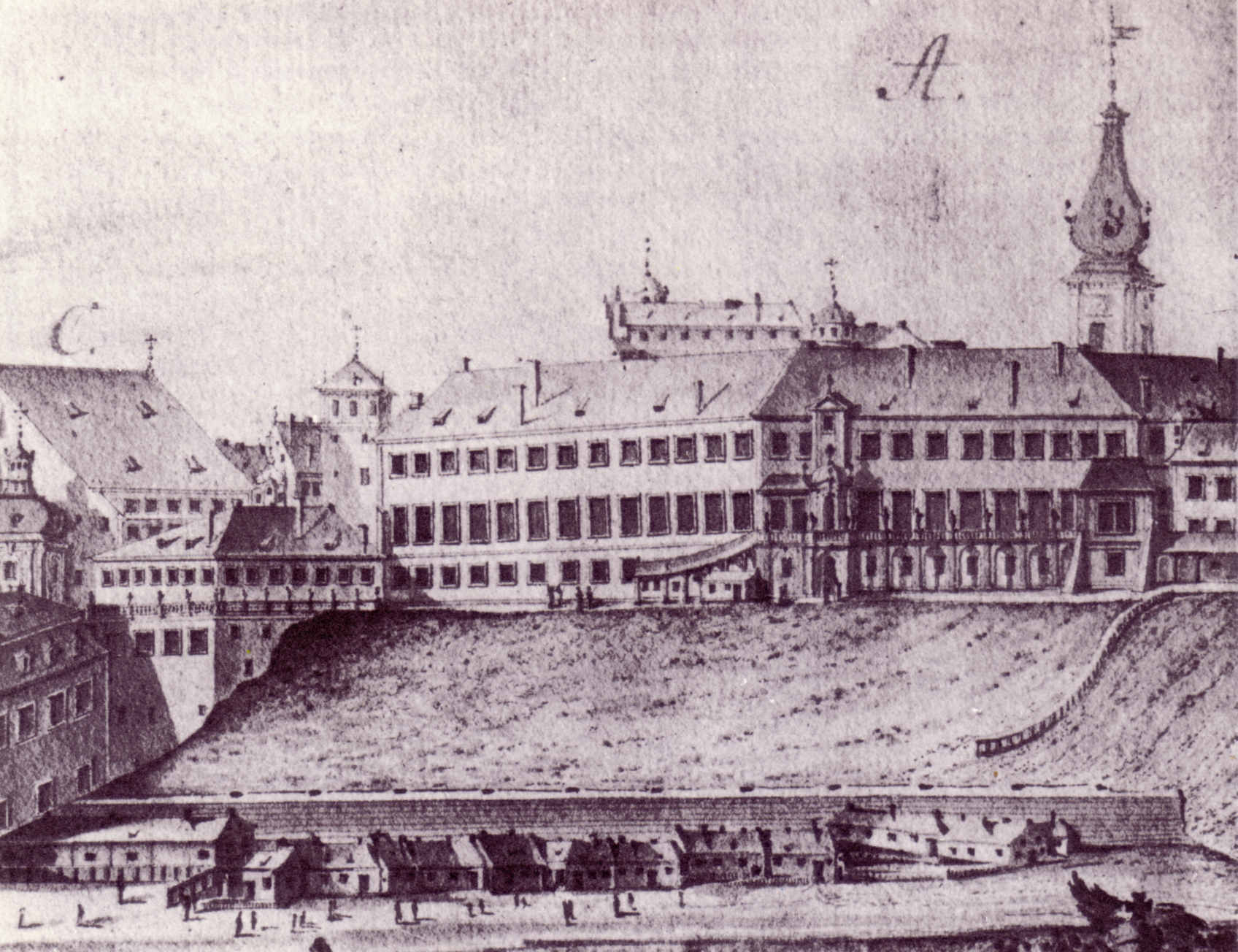 Royal Castle in Warsaw during the reign of John Sobieski with the Sobieski's Bath.